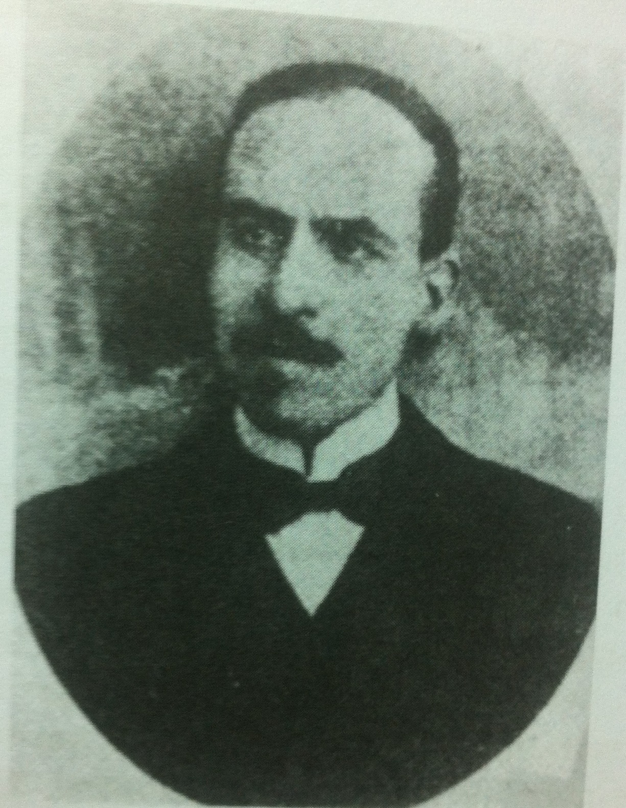 The Iranian-Jewish politician and Zionist activist Samuel Haim, member of the Majlis, the Iranian parliament (1924-1926)